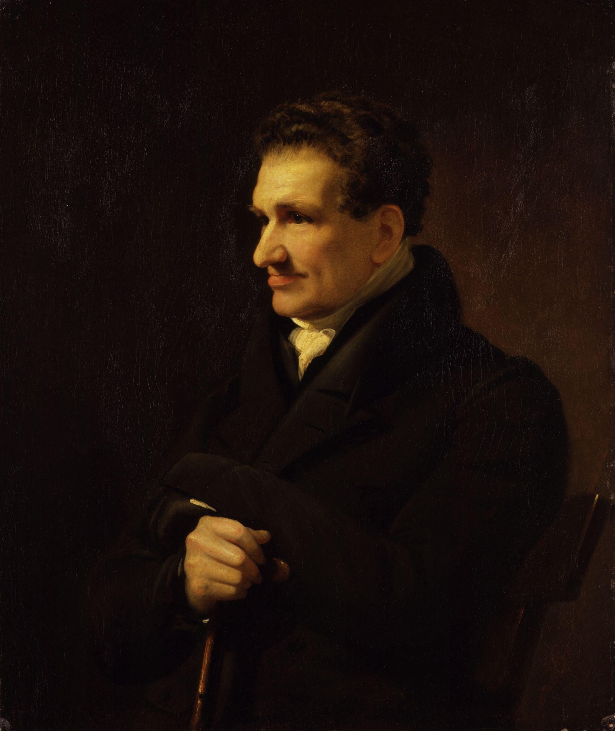 All images in this batch have been confirmed as author died before 1939 according to the official death date listed by the NPG.